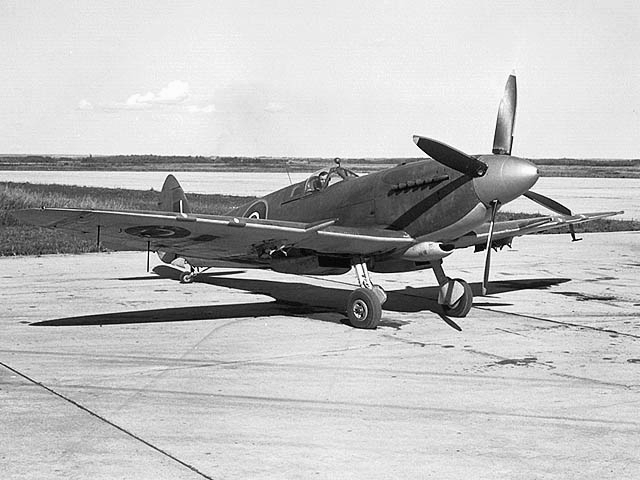 A Royal Canadian Navy Supermarine Seafire Mk XV, used 1946 - 1954.